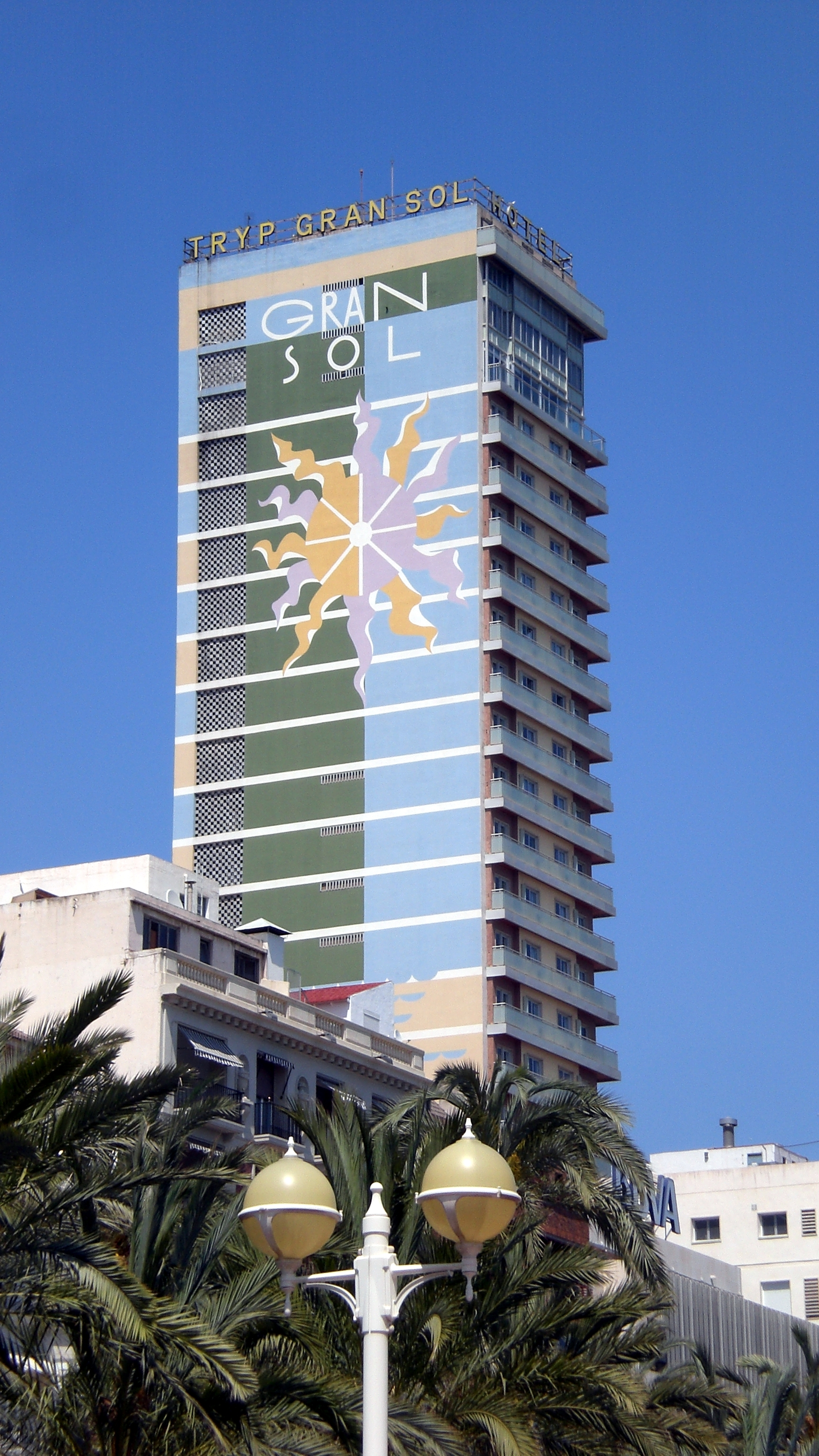 Tryp Grand Sol Hotel (Alicante).